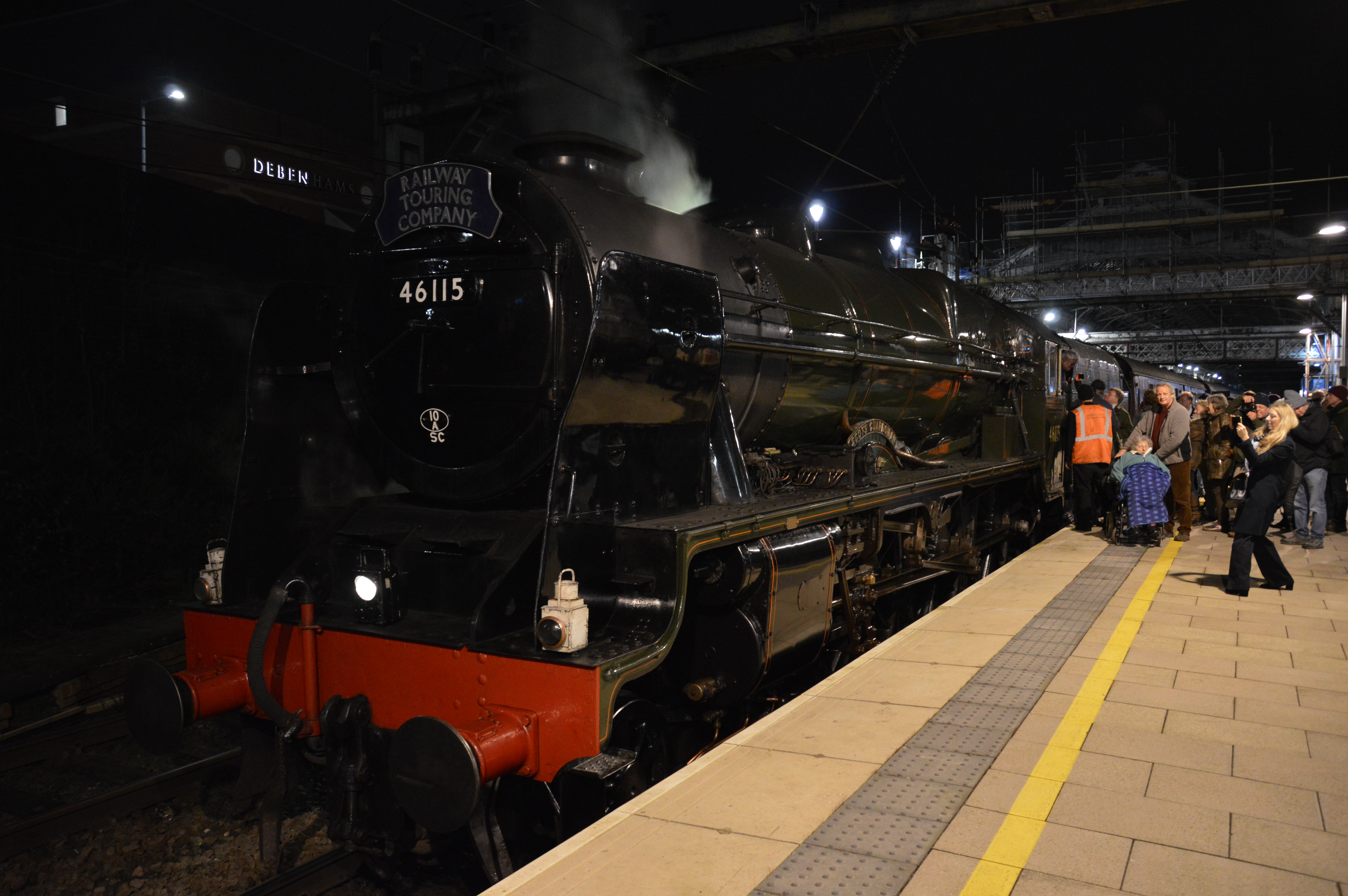 Journey's end for the steam section and 46115 Scots Guardsman is seen stood at the far end of Preston's platform 6 while waiting for 86259 Les Ross to attach to the southern end of the train for the journey back to London Euston. 46115 would return with it's support coach to it's home at Carnforth MPD.